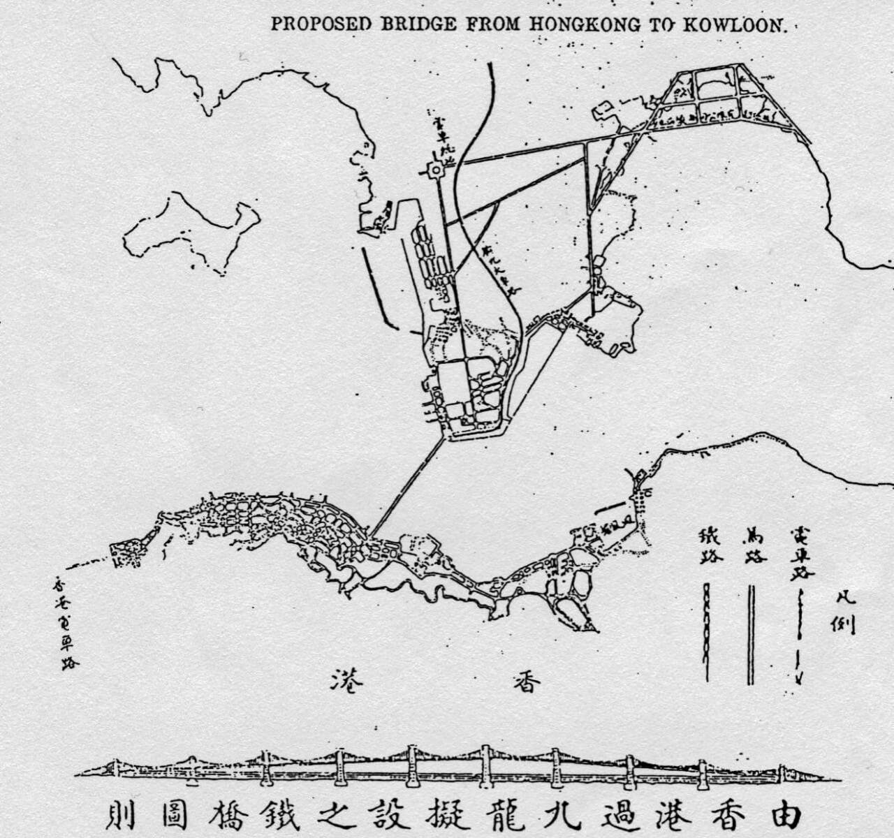 The proposed bridge crossing Victoria Harbour that contains road, railway and tram tracks in 1921. This map also shows other projects like Yau Ma Tei development, Kai Tak reclamtion in Kowloon Bay, etc. This map can be found in China Mail 76th Anniversary Number (1921).